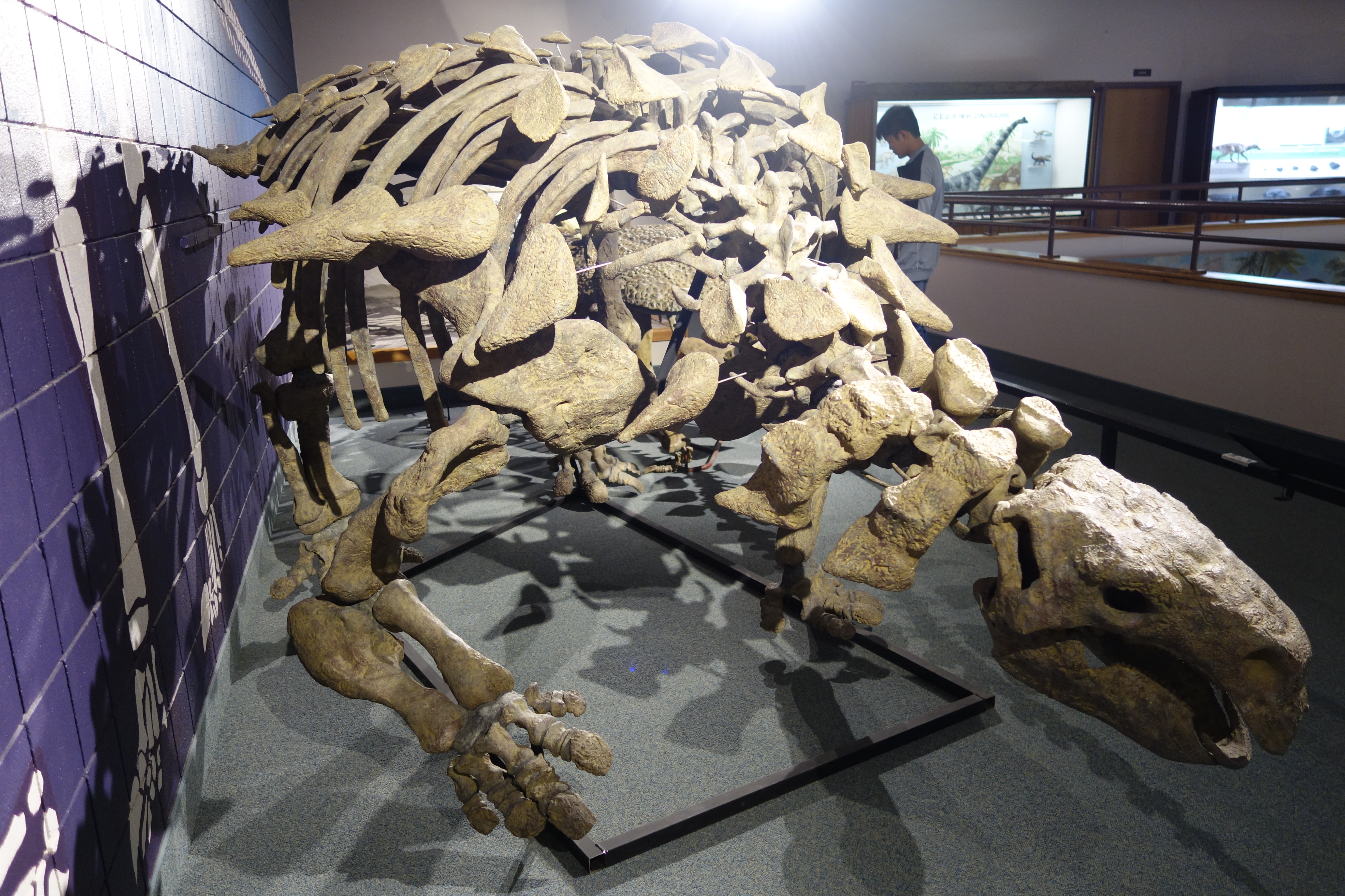 Peloroplites cedrimontanus skeletal mount. On display at the USU Eastern Prehistoric Museum, Price, Utah (US).